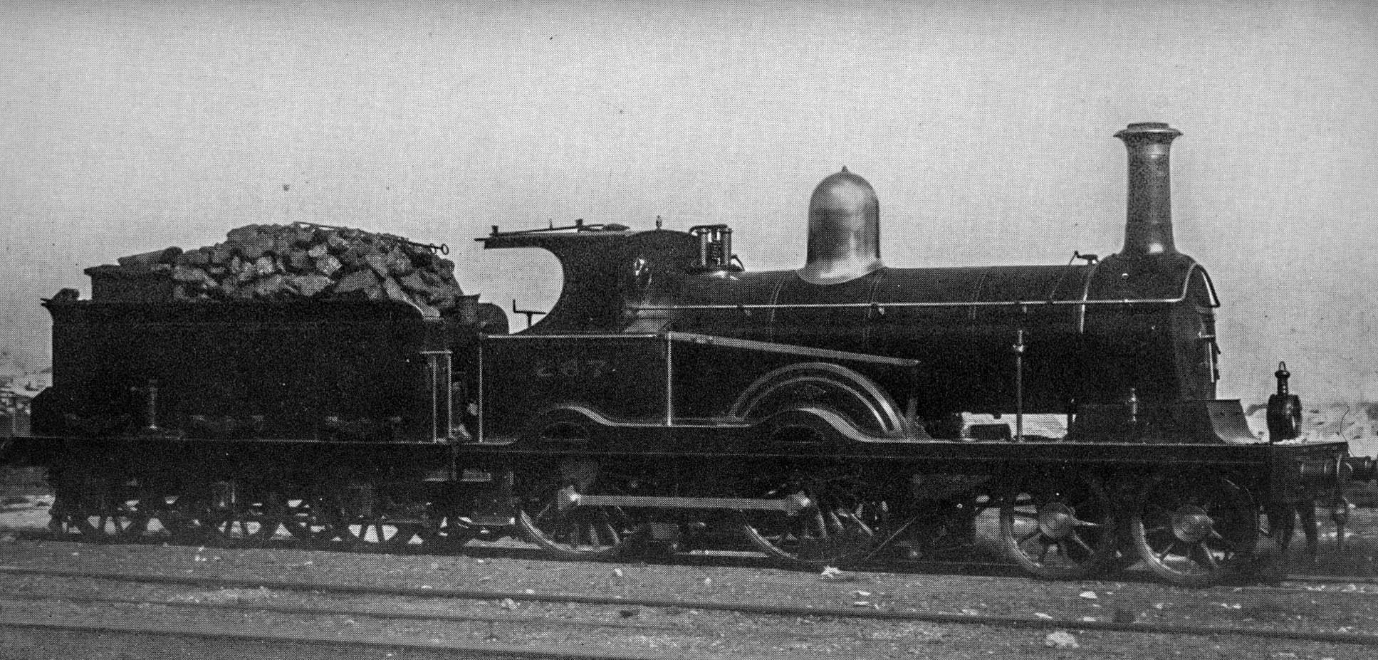 NSWGR D.261 Class Locomotive 4-4-0 Passenger Type